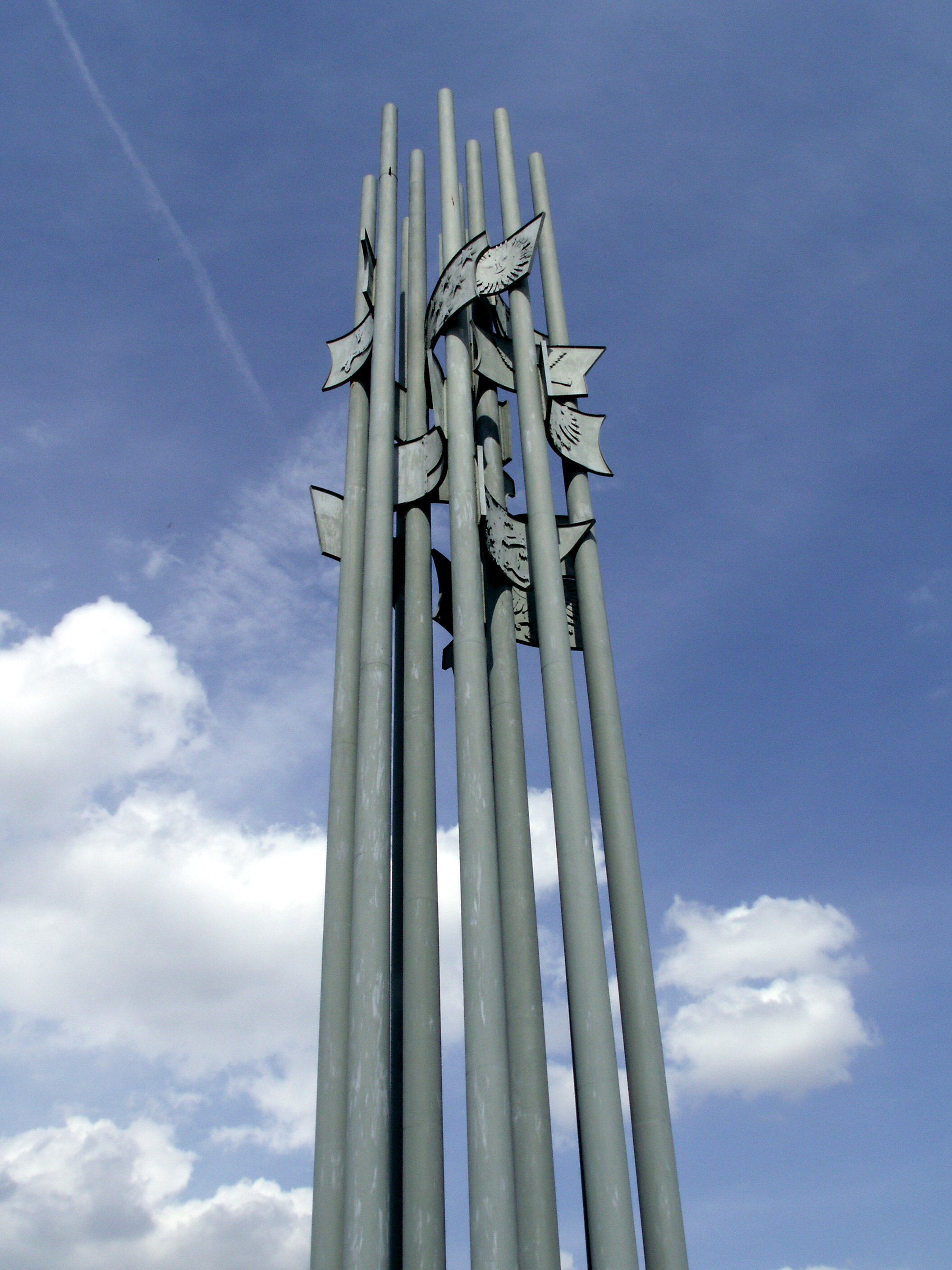 Battle of Grunwald 2008